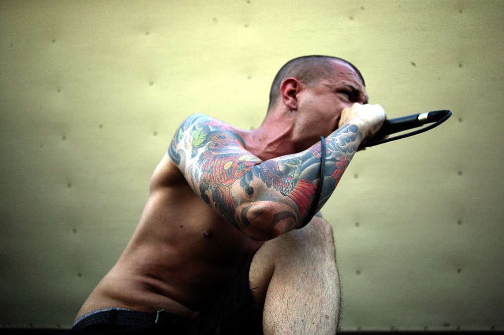 Throwdown performing as part of Warped Tour 07 in Las Cruces NM.